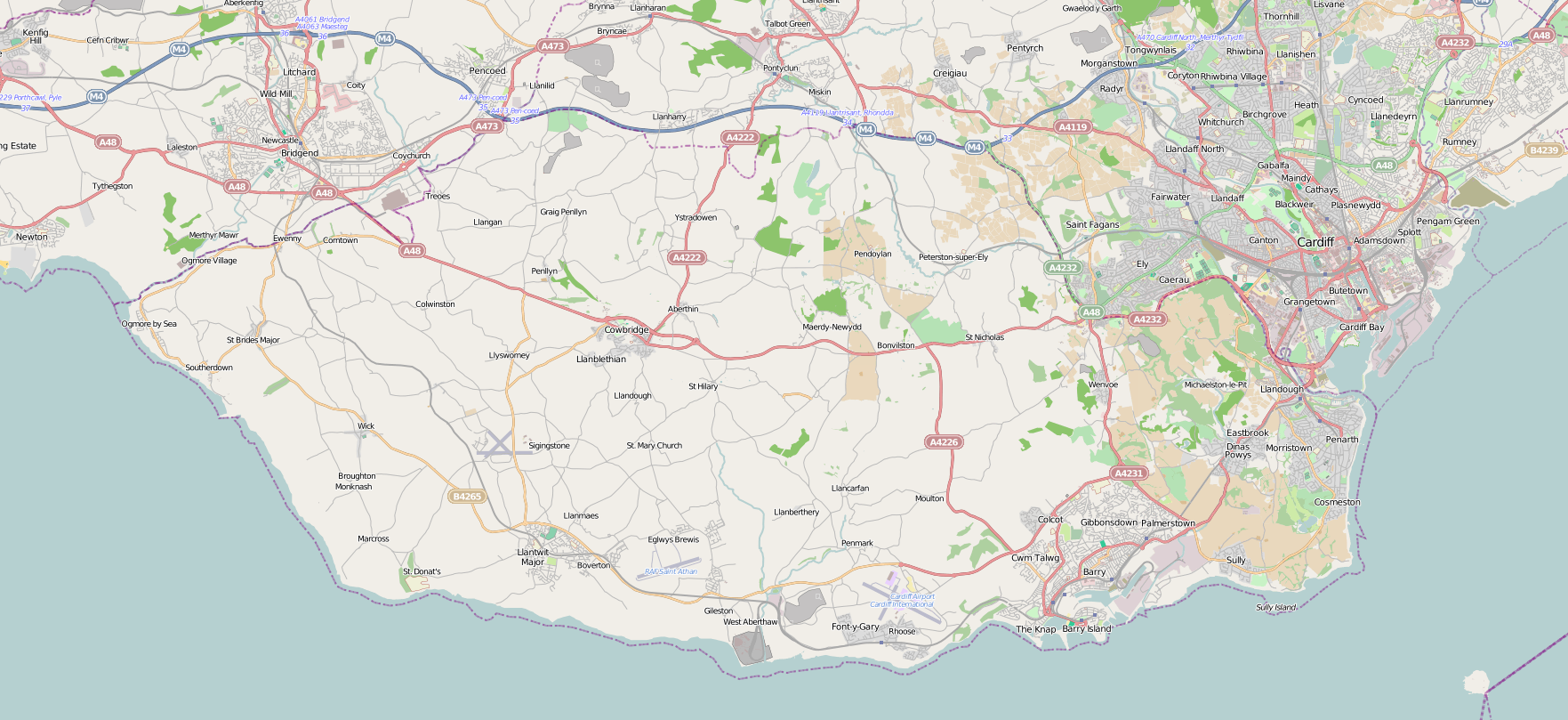 Map of the Vale of Glamorgan, Wales and surrounding area